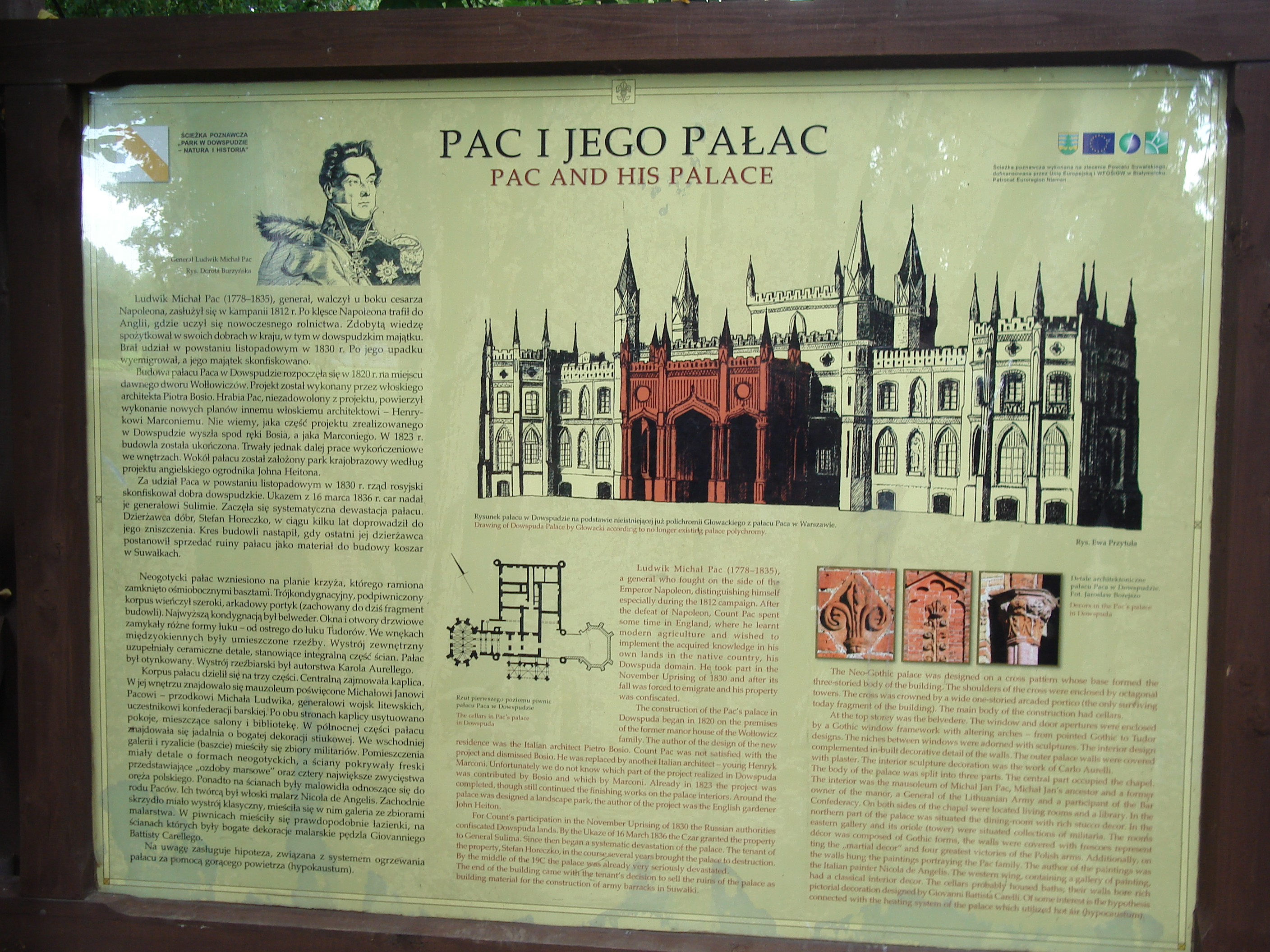 Information board near the remains of Pac's palace (marked in red), Dowspuda, Poland